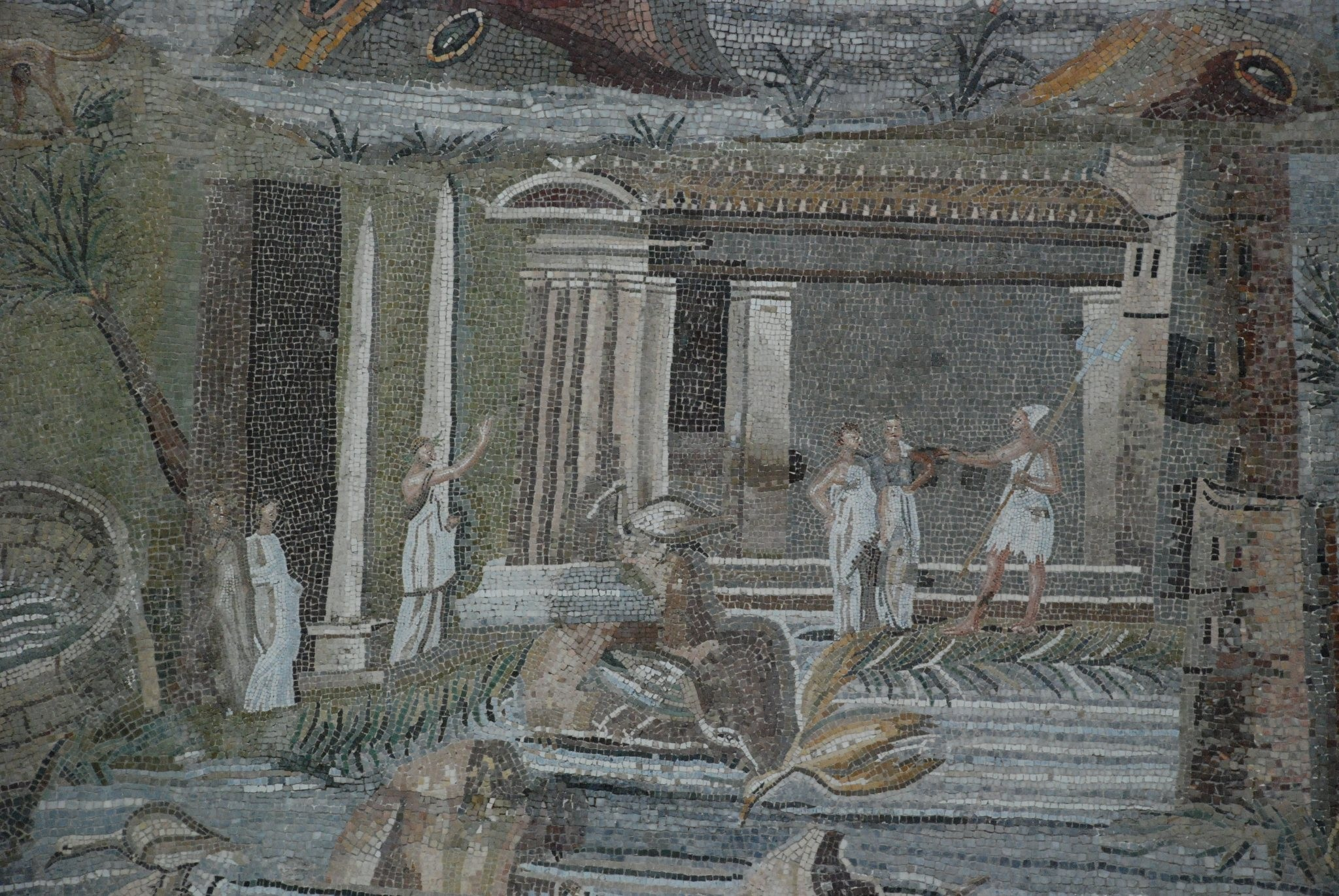 Detail of the Nile mosaic at the National Archeological Museum of Palestrina